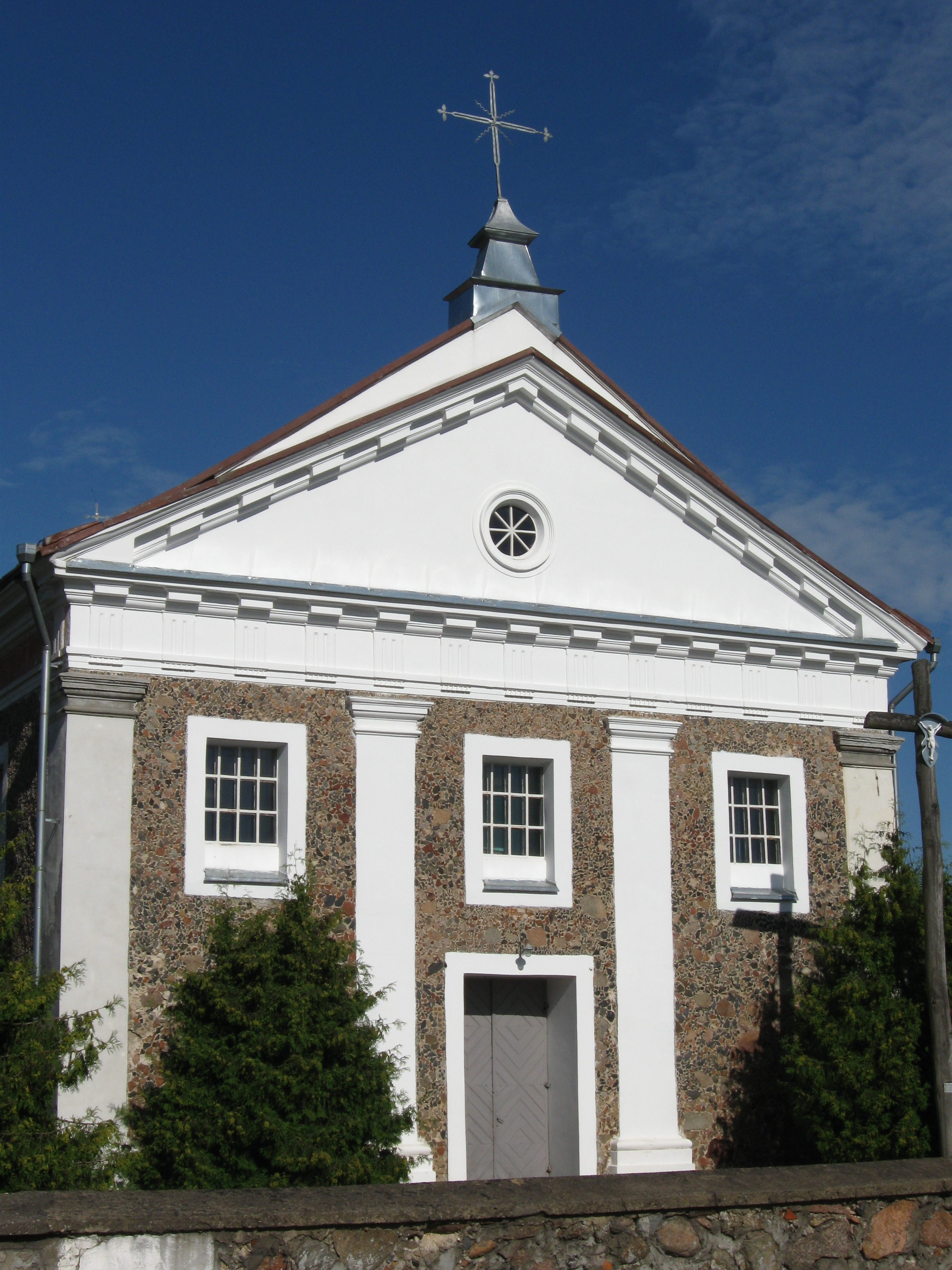 St.Michael Archangel Roman Catholic Church (built in 1825—1828), Porazava town, Hrodna Oblast, Belarus.